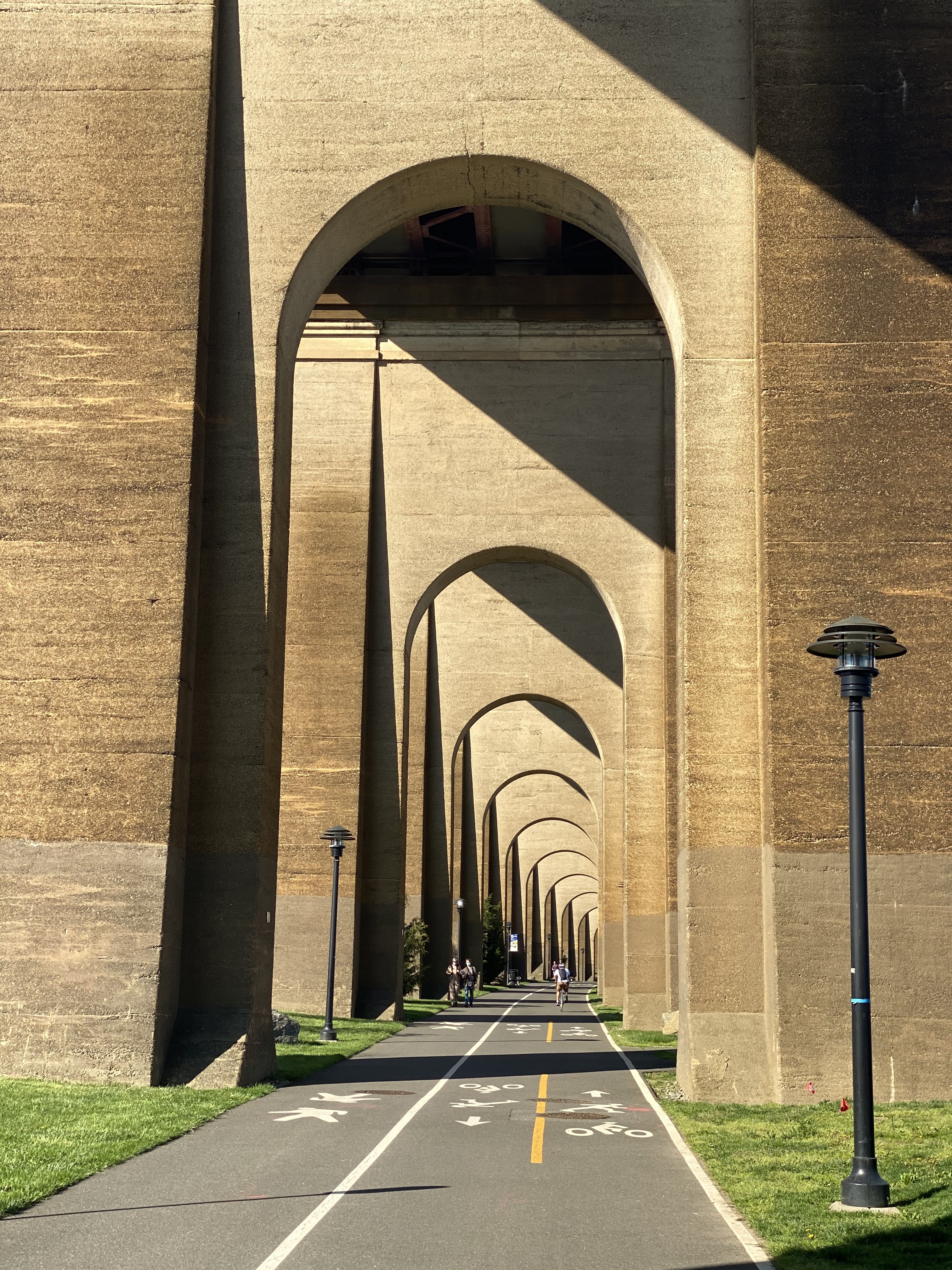 Hell Gate pathway on Randall's Island New York, NY